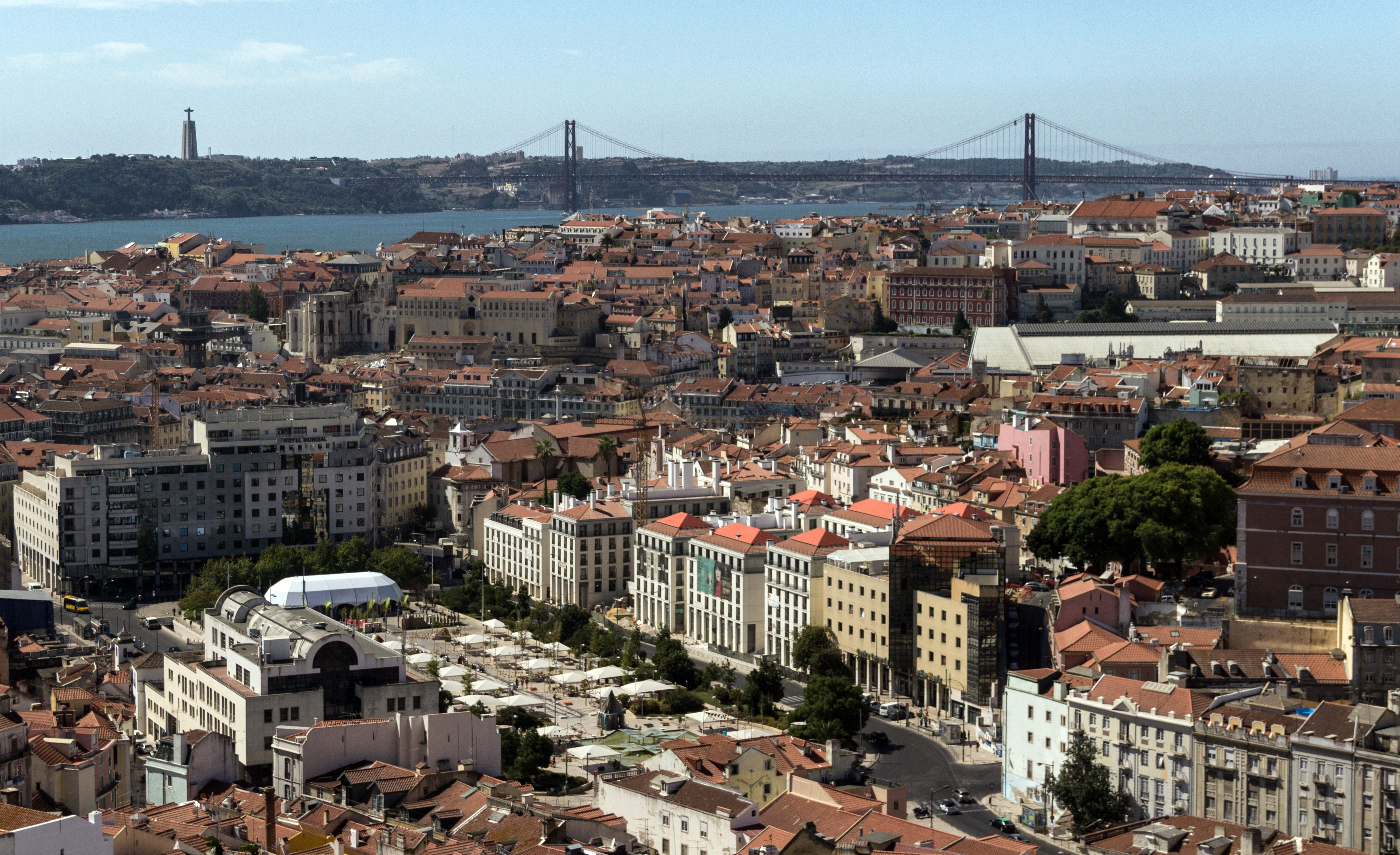 View of Lisbon, Portugal.